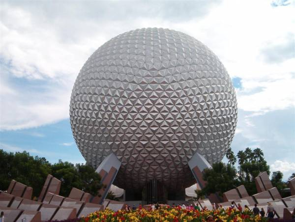 Picture from Disney World. Taken by member of WDW Magic Forums in September, 2007.